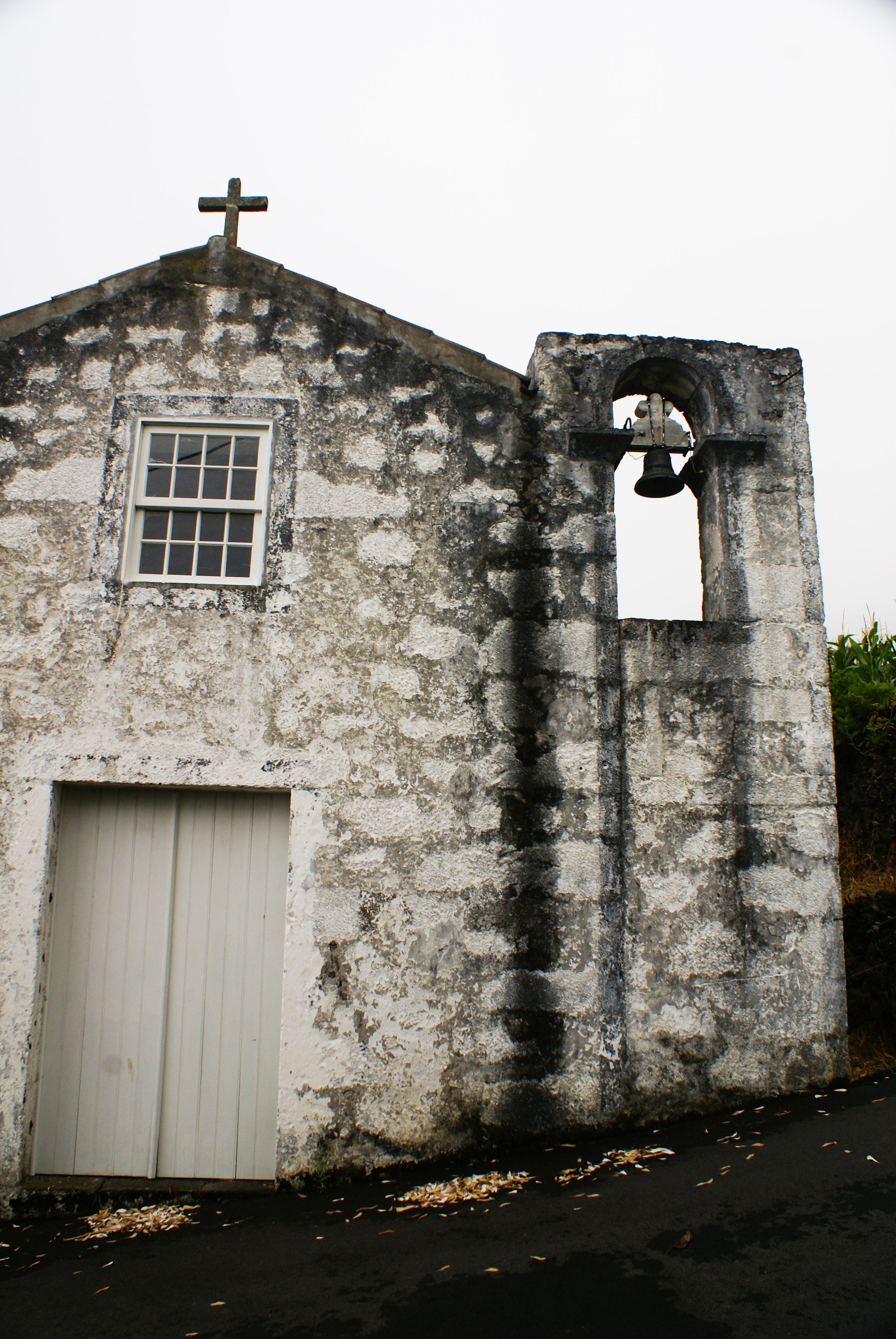 Ermida de Nossa Senhora do Socorro das Ribeiras, concelho das Lajes do Pico, ilha do Pico, Açores, Portugal